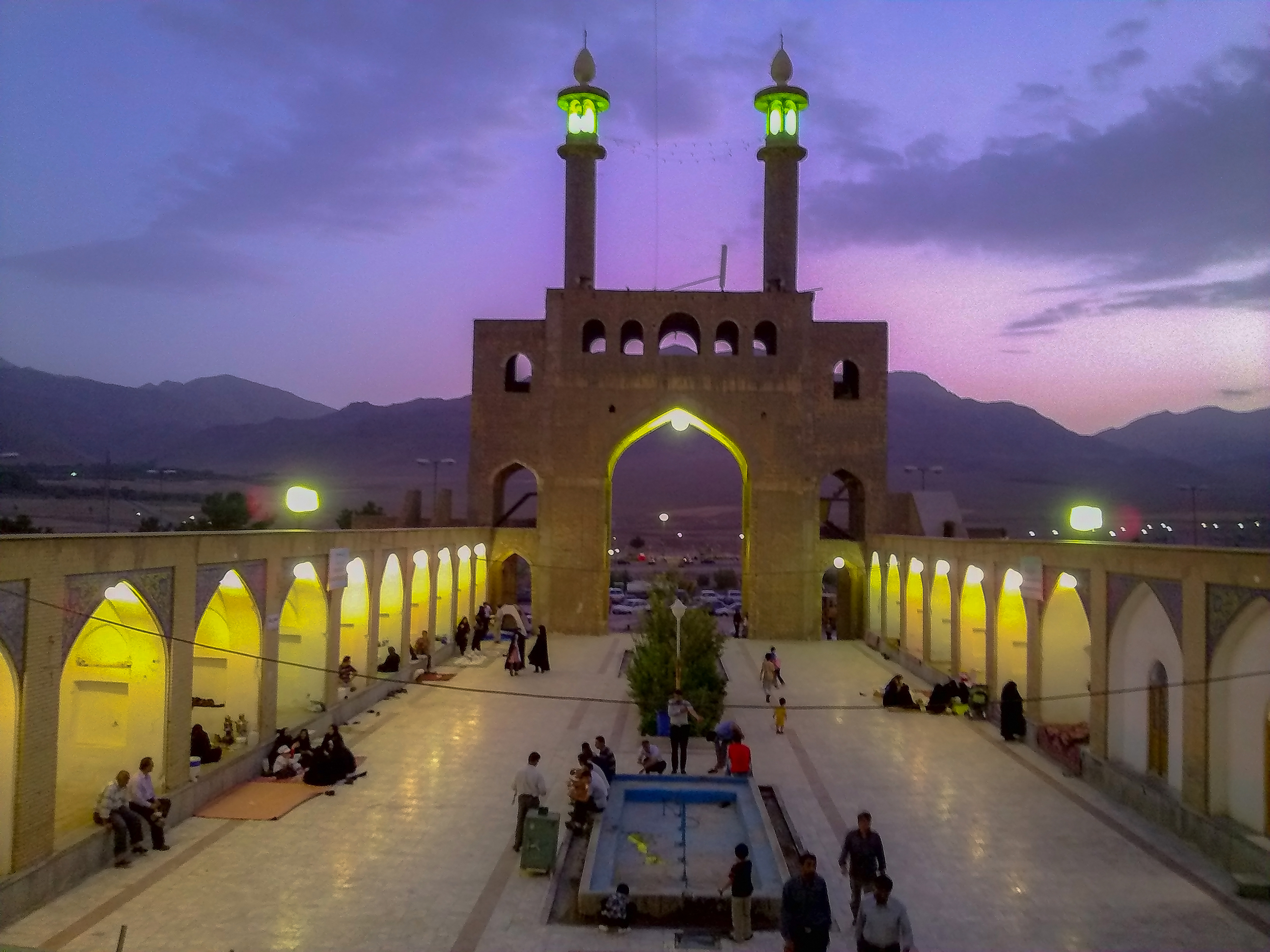 Sultan Ali ibn Muhammad al-Baqir 'Ali ibn Muhammad ibn 'Ali ibn al-Husayn was the son of the fifth imam of Twelver Shii Muslims and fourth imam of Ismaili Shii Muslims, Muhammad al-Baqir. Born in Medina, 'Ali, known in Iran as "Sultan 'Ali," was dispatched by his father to the areas of Kashan and Qom, where he served as a Friday prayer leader and teacher; his popularity and his preaching of Shii Islam proved threatening to the local representative of the Umayyad dynasty. The Umayyad representative's forces cornered and killed Sultan 'Ali and a band of his supporters, after a prolonged battle, and before a larger group of supporters could arrive, in Ardahal, a village roughly 45 kilometers east of Kashan on August 7, 734 CE (27 Jamadi II, 116 AH). He is still revered by Shii Muslims, especially in Iran, where his burial place—which has undergone repeated renovations but dates, in part, to the Saljuq period—has become a site of visitation. The shrine is known for a distinctive annual carpet-washing ritual (qālī-shūyān) that occurs on the seventeenth day of autumn to commemorate the day of Sultan 'Ali's martyrdom, a ritual that might have its origins in Sultan 'Ali's body having been wrapped in a carpet and brought to the site of his burial after his murder.